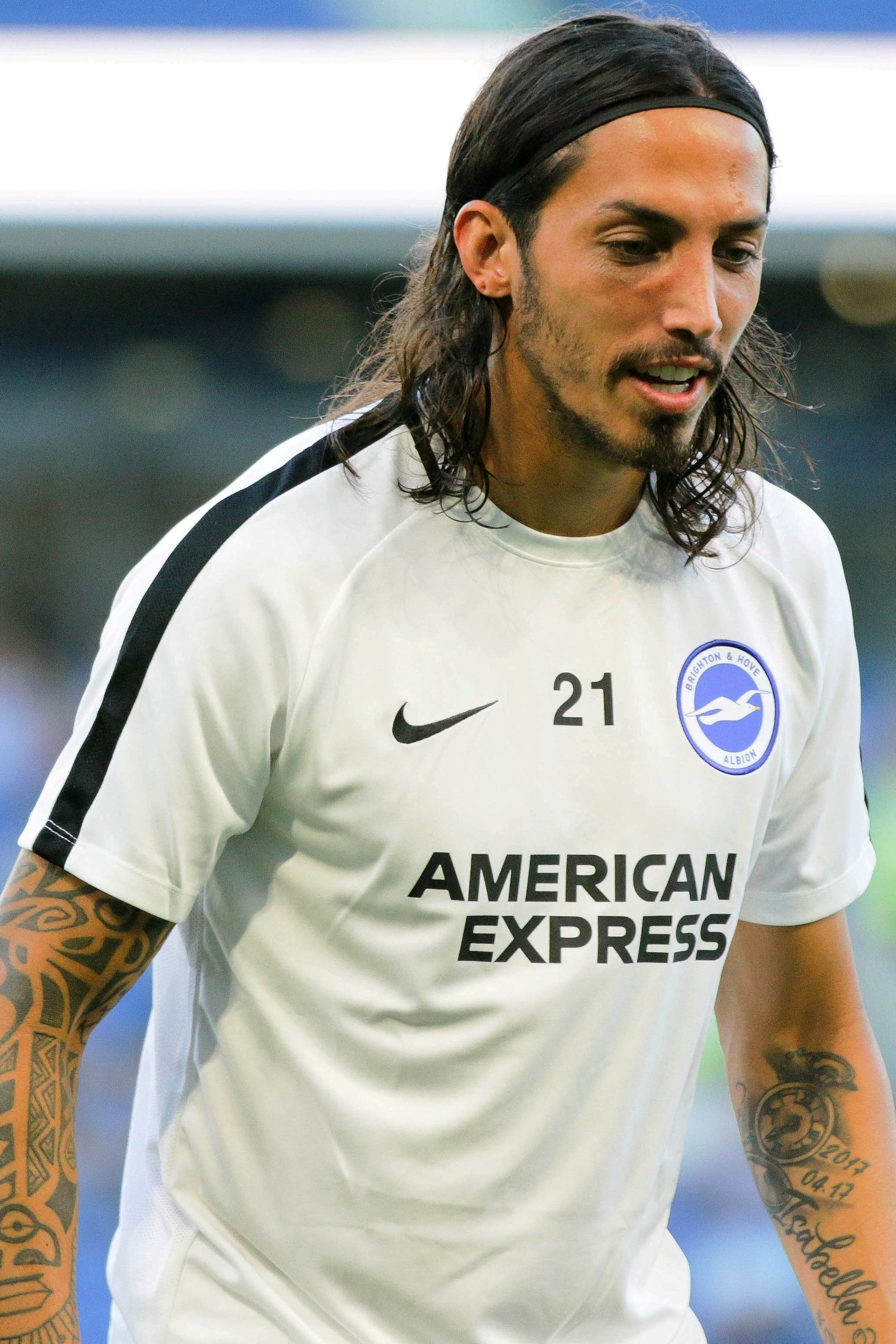 BHA v FC Nantes pre season 03 08 2018-25.jpg